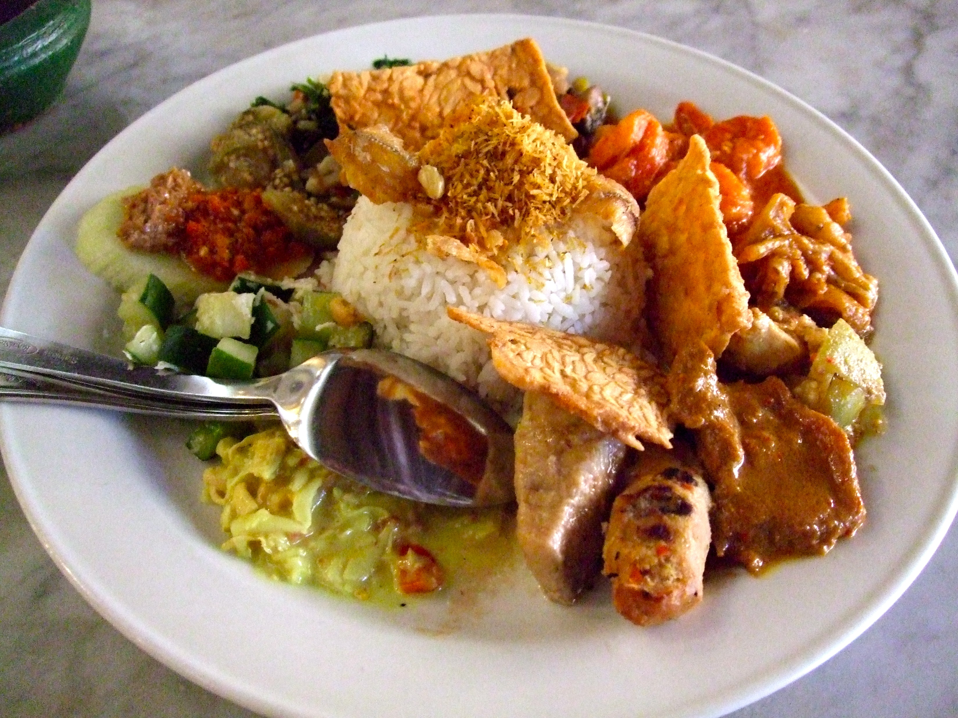 Nasi Campur in Made's Warung